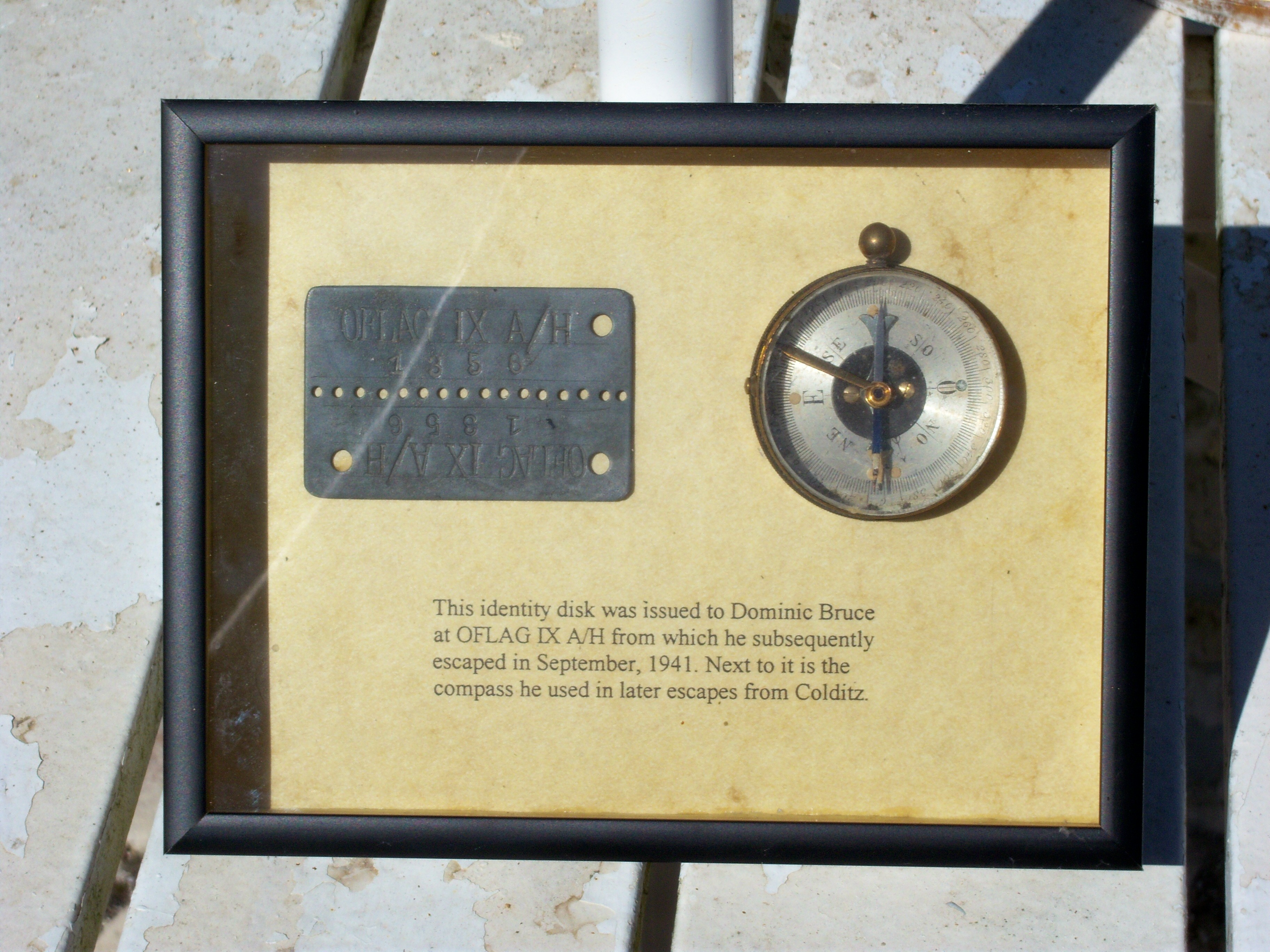 Dominic Bruce ID disk from Spangenberg, compass used on an escape from Colditz